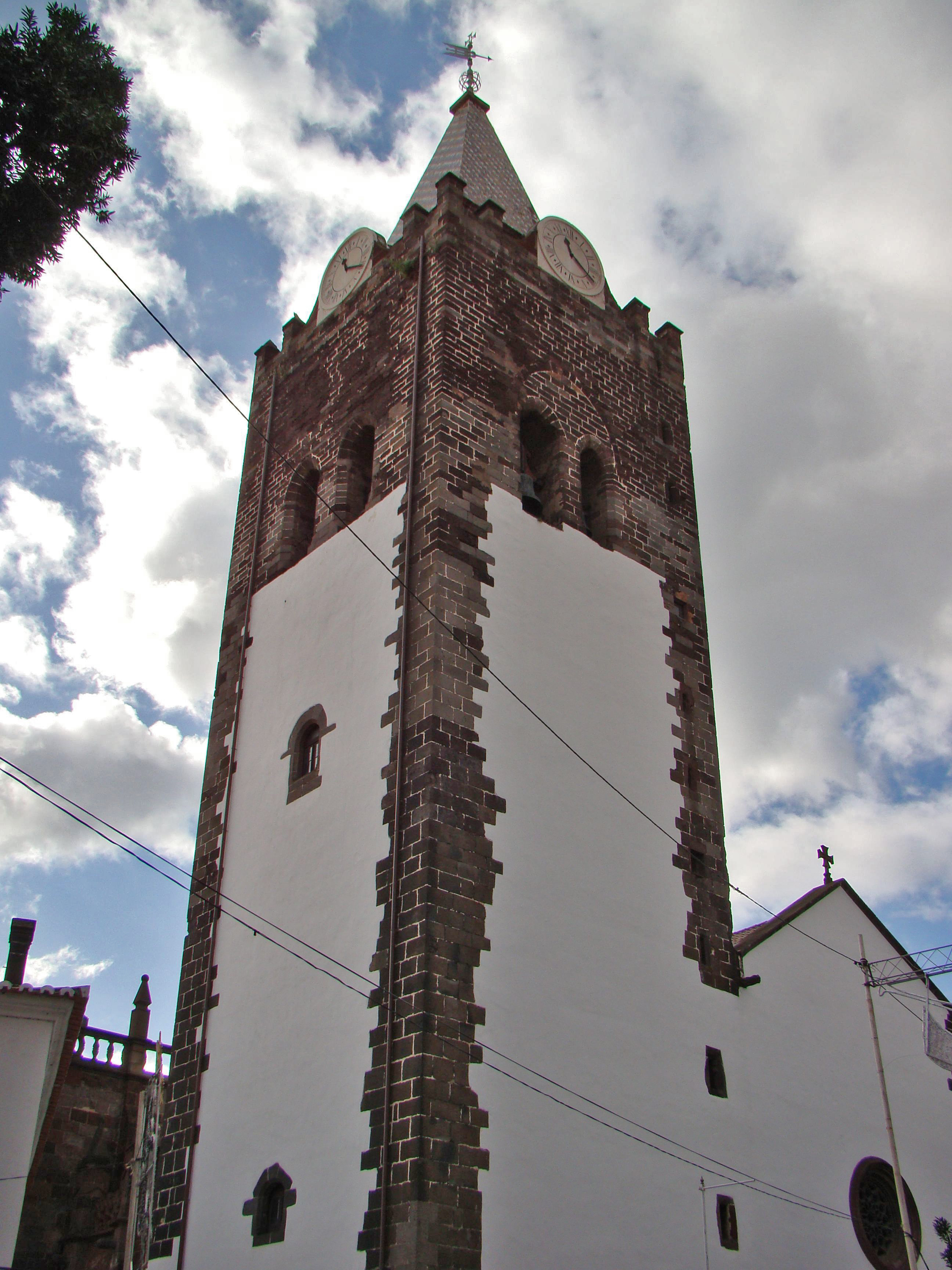 Gothic tower at Madeira